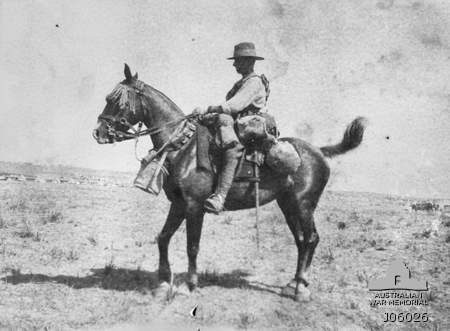 Outdoor portrait of 2152 Private (Pte) Richard Harwell Bryant, 15th Australian Light Horse Regiment. A linesman from Paddington, New South Wales, prior to enlistment in the 7th Light Horse Regiment on 31 November 1915, he embarked from Sydney aboard HMAT Orsova on 11 March 1916 for Egypt. Pte Bryant continued to serve in the Egypt and Palestine area with the Light Horse and the Imperial Camel Corps. He was admitted to hospital on four occasions during the period from August 1916 to July 1918 when he was transferred to the 15th Light Horse Regiment where he served as batman to Colonel Mills who was in command of the regiment. He was admitted to hospital for a fifth occasion on 28 October 1918 suffering from dysentery and died of the disease on 4 November 1918 in No 32 Casualty Clearing Station, Beirut, Syria. He was aged 38 years.